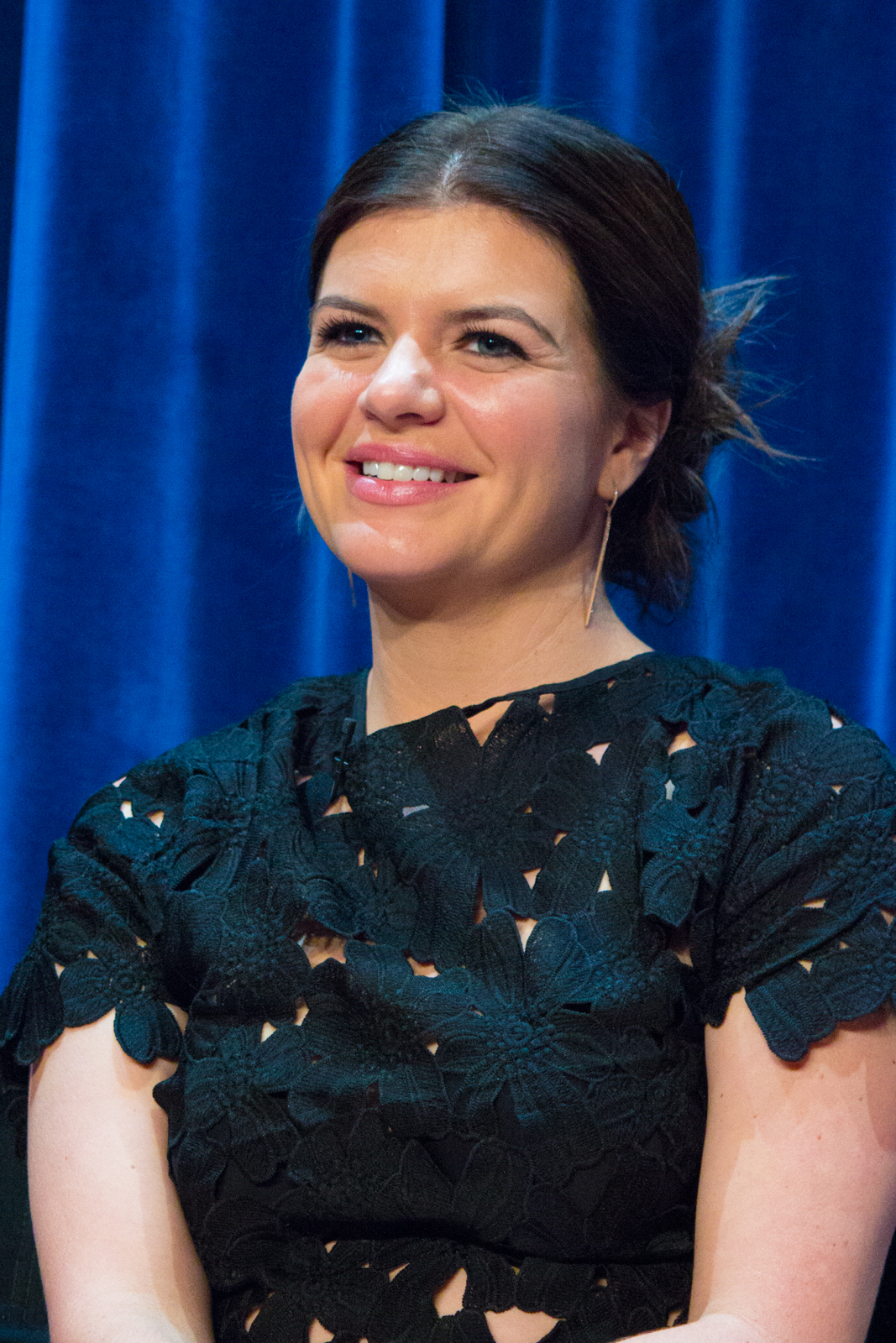 Casey Wilson at the PaleyFest Fall TV Previews 2014 for NBC's "Marry Me"